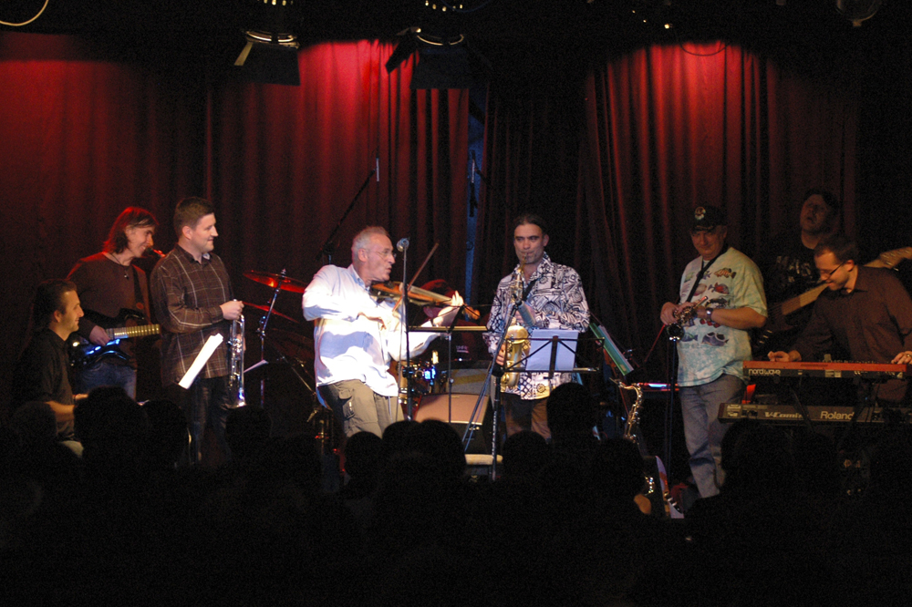 Violin player Krzesimir Debski with friends in concert in Piaseczno, Poland